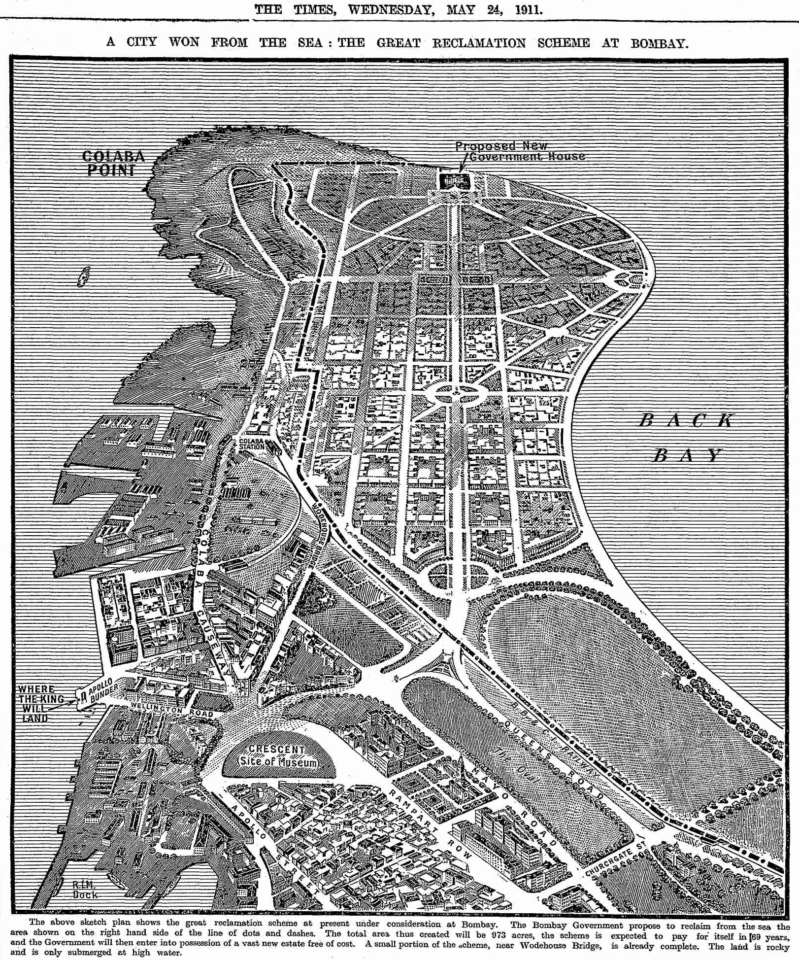 A city won from the sea: The great reclamation scheme at Bombay. "The above sketch plan shows the great reclamation scheme at present under consideration at Bombay. The Bombay Government propose to reclaim from the sea the area shown on the right hand side of the line of dots and dashes. The total area thus created will be 973 acres, the scheme is expected to pay for itself in 69 years, and the Government will then enter into possession of a vast new estate free of cost. A small portion of the scheme, near Wodehouse Bridge, is already complete. The land is rocky and is only submerged at high water."